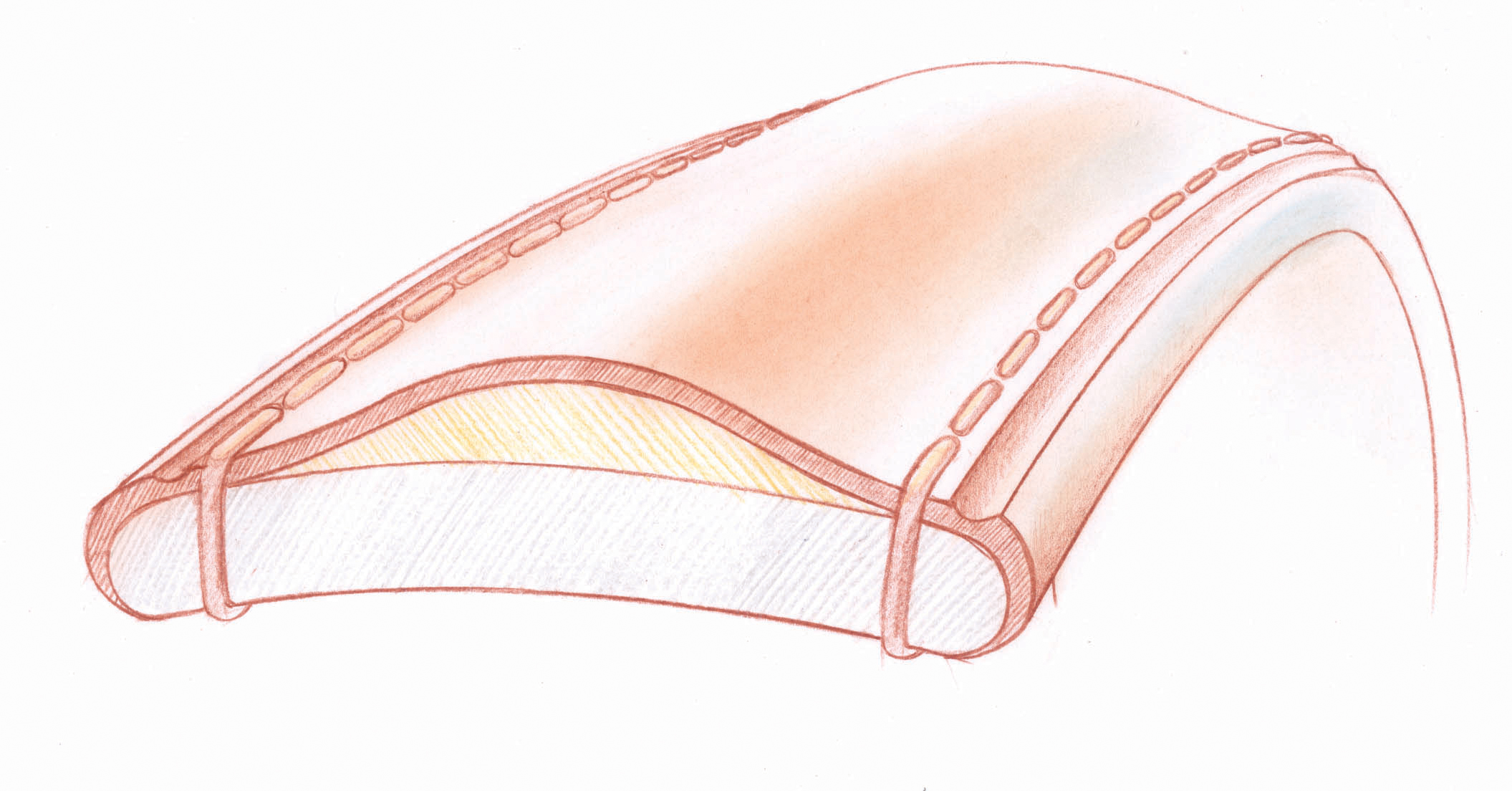 HIRSCH rembordé technique